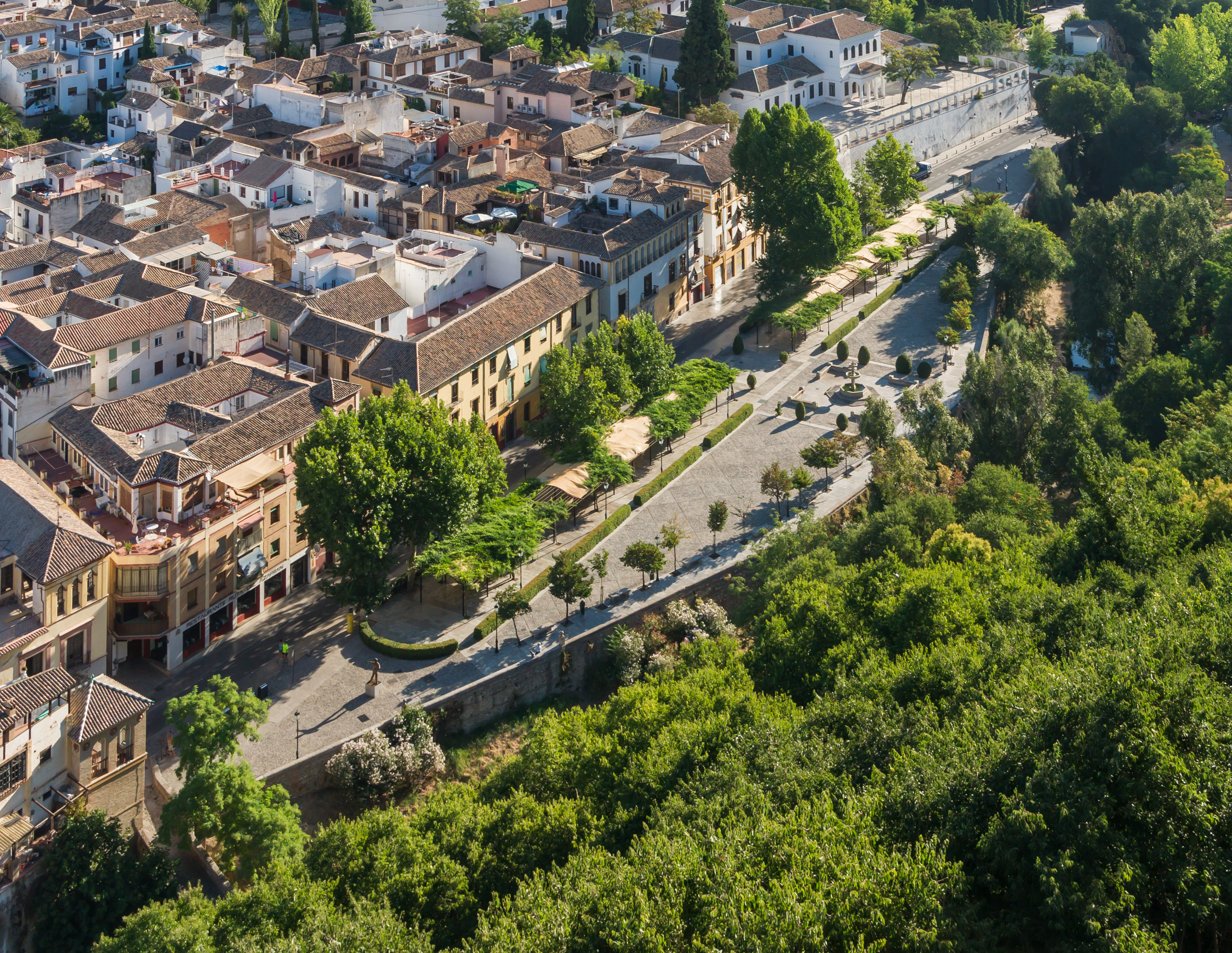 Calle Chirimias, from Alhambra, Granada, Andalusia, Spain